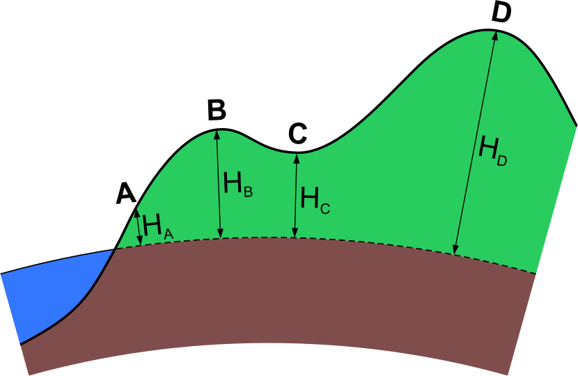 Elevation